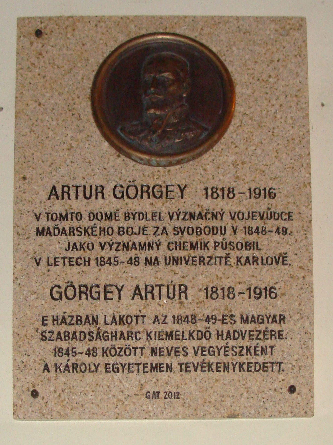 Memorial plaque Prague, Kožná ulica 8., the ex-residence of general Artúr Görgey, who lived there in 1845–48